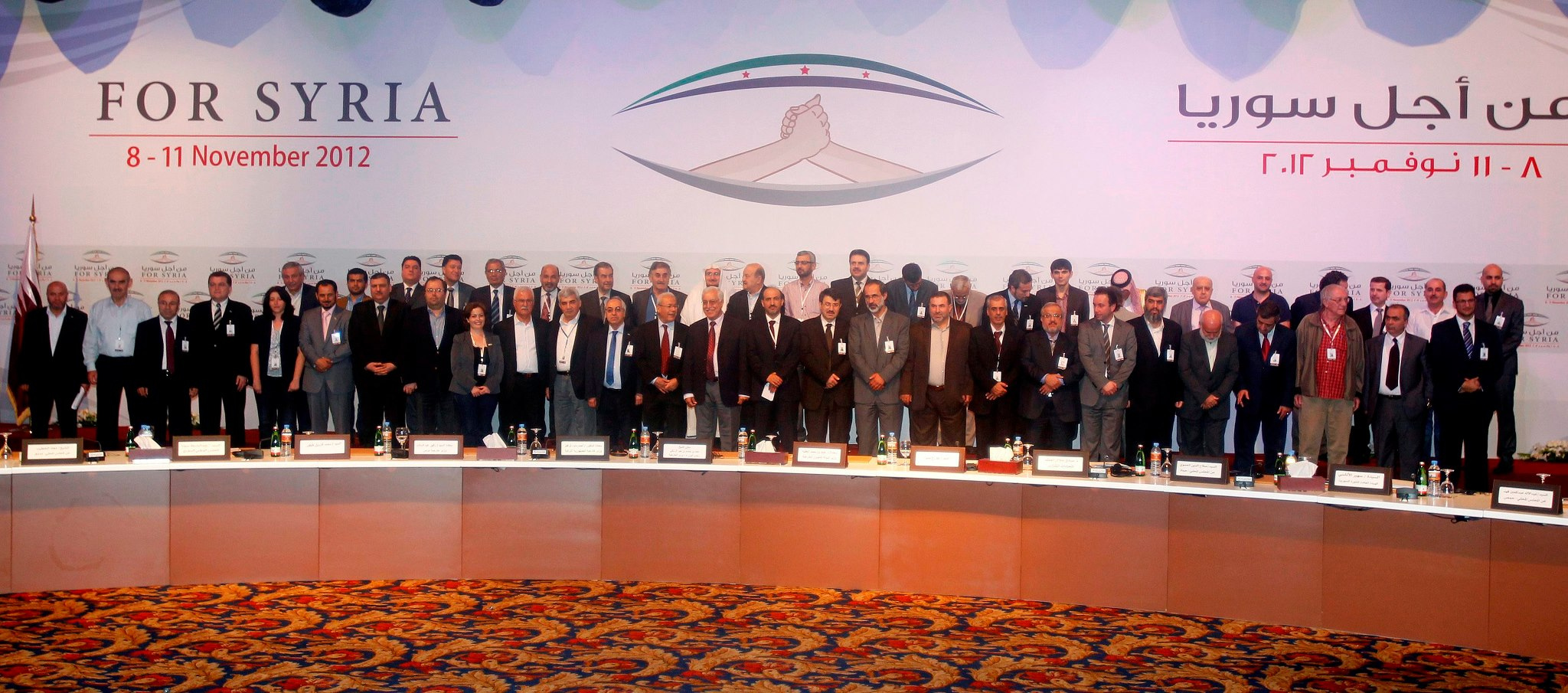 Historic photo of National Coalition for Syrian Revolutionary and Opposition Forces members in Doha, Qatar.